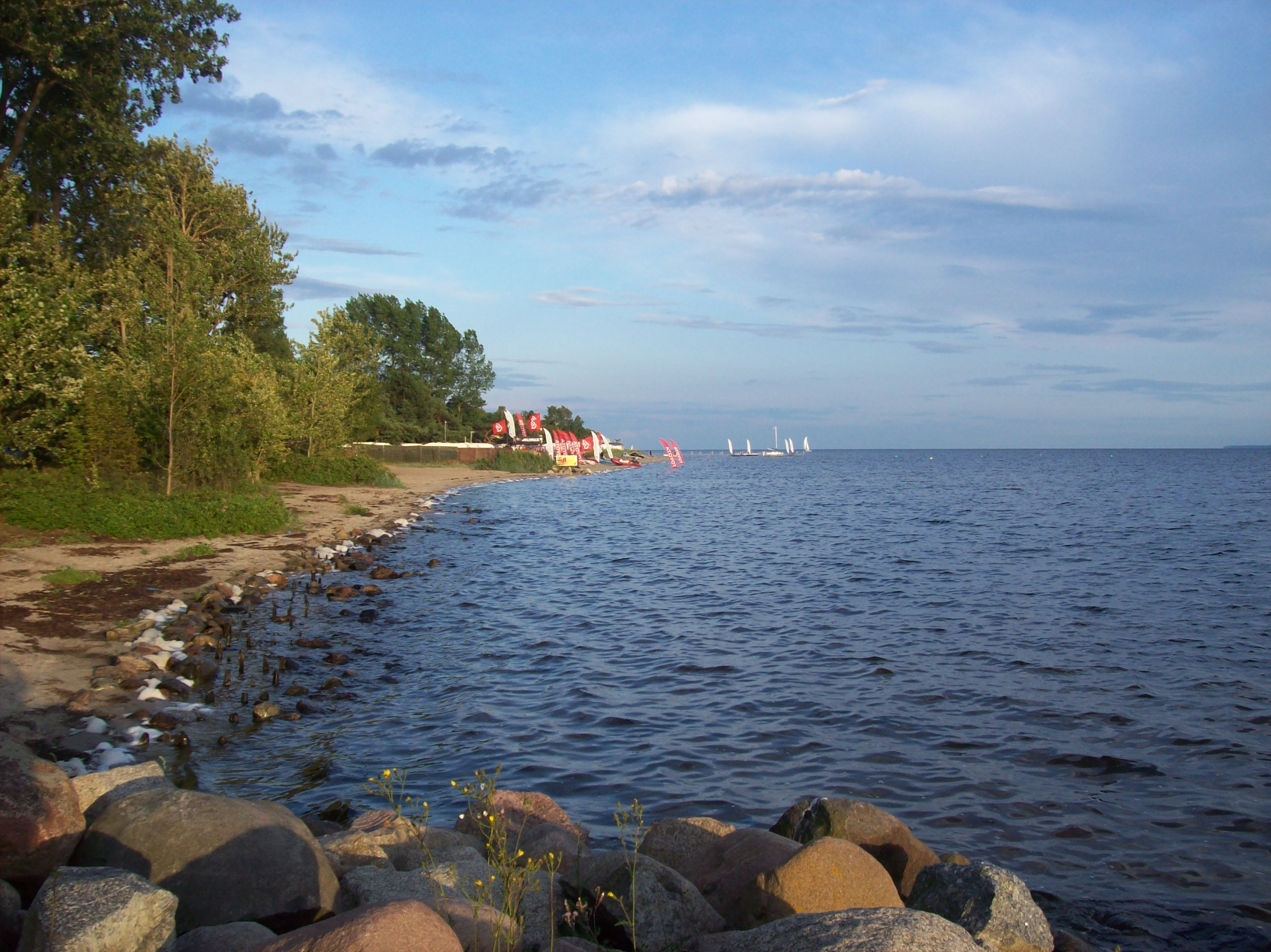 Hel spit, the south beach - view to Puck bay